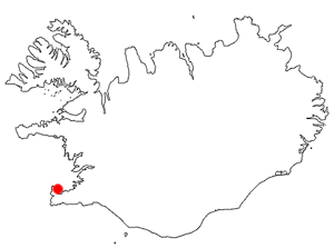 Keflavík position in Iceland